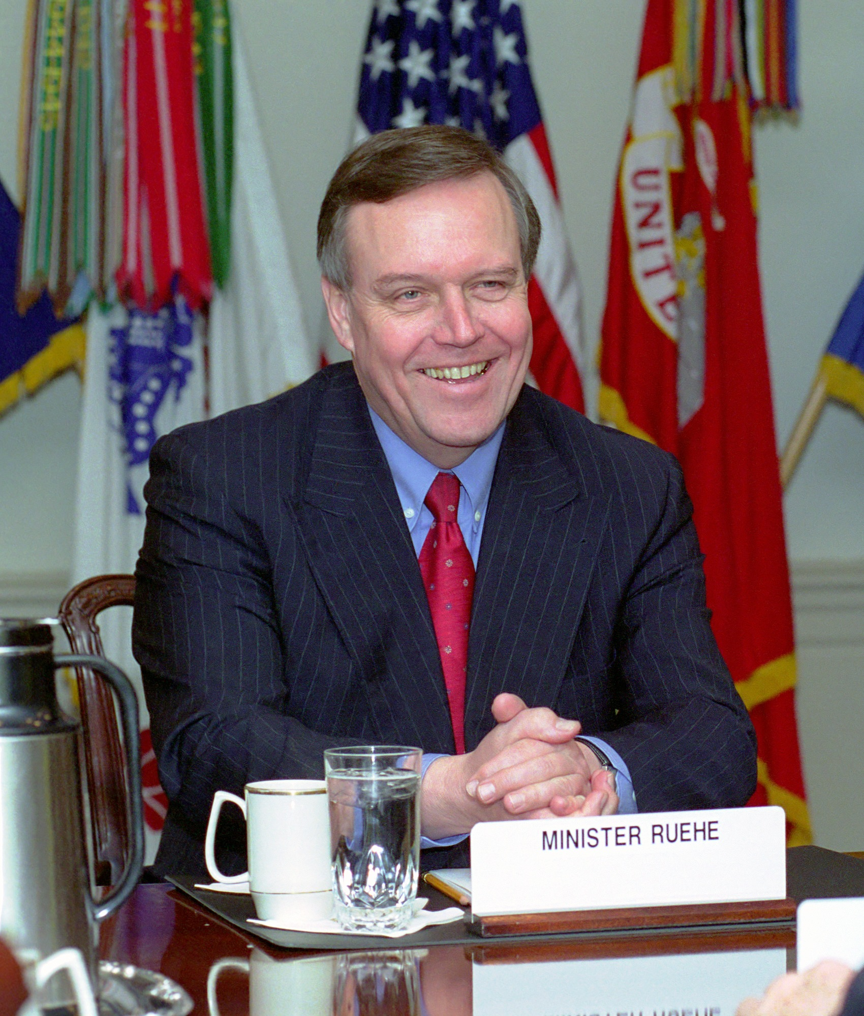 Volker Rühe (left), former German Minister of Defense at the Pentagon, Room 3E912, Washington, D.C., February 28th, 2001.